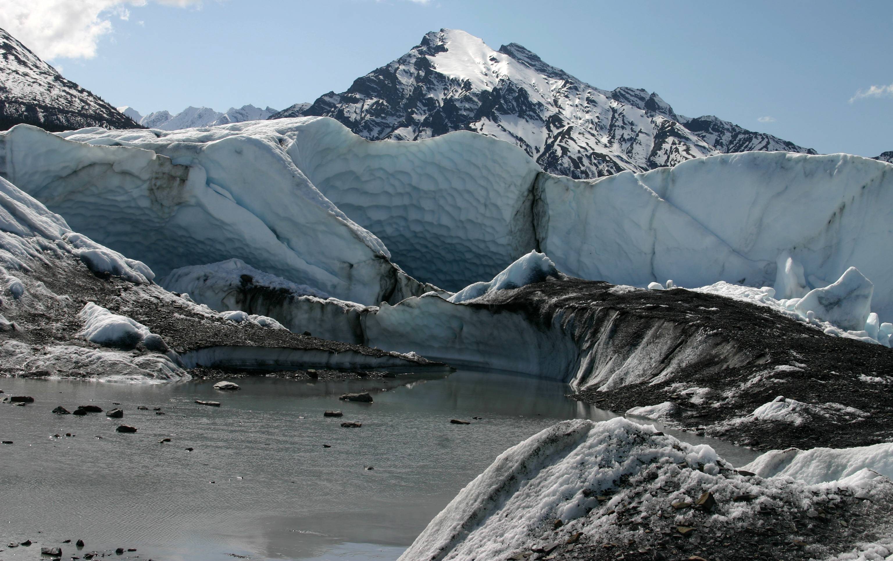 Taken on a day trip to the Matanuska Glacier, about 100 miles NE of Anchorage, Alaska in May 2008.